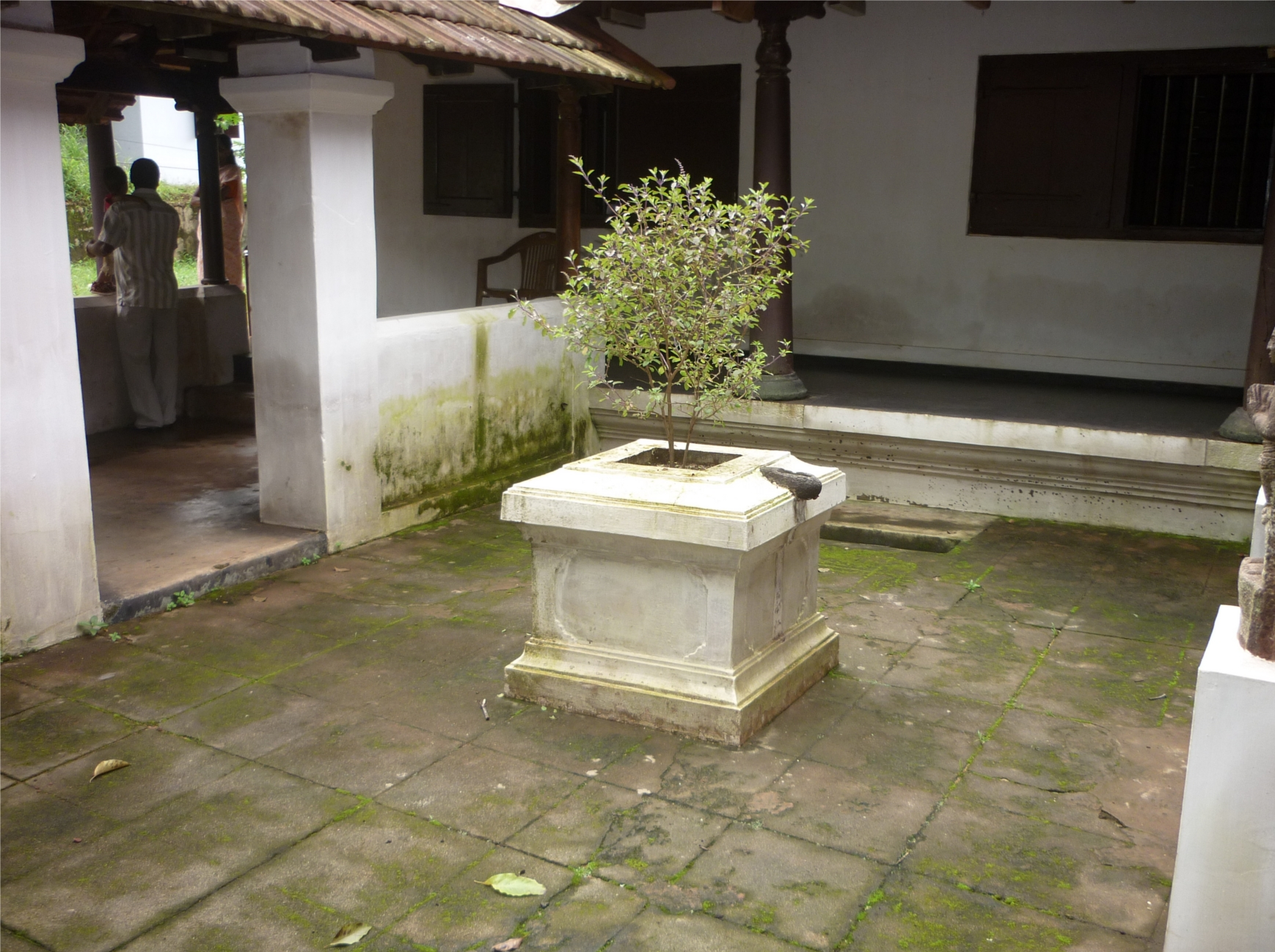 A devoted place in old Indian courtyard